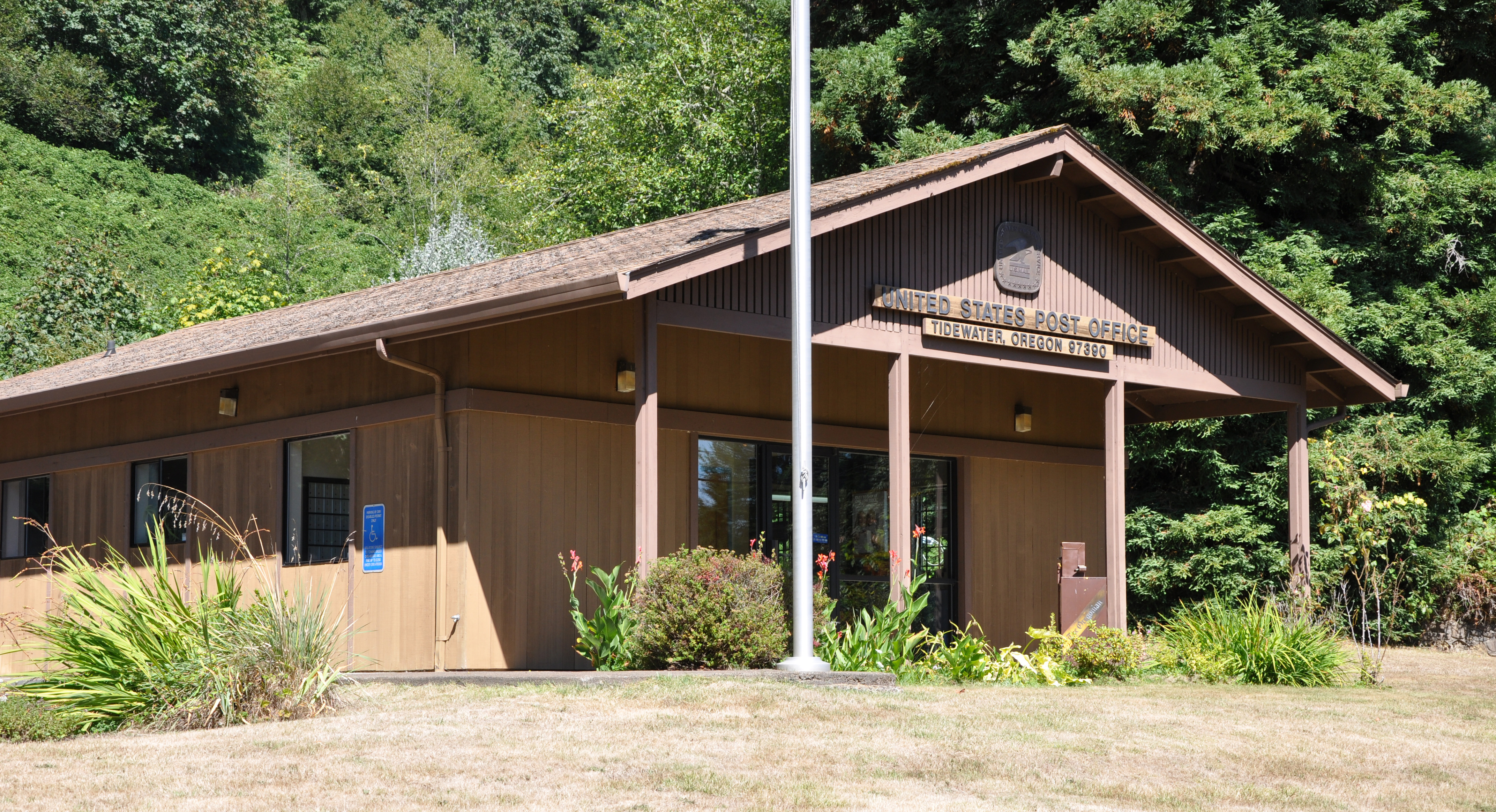 Tidewater Post Office in the U.S. state of Oregon, looking north from Route 34, the Alsea Highway